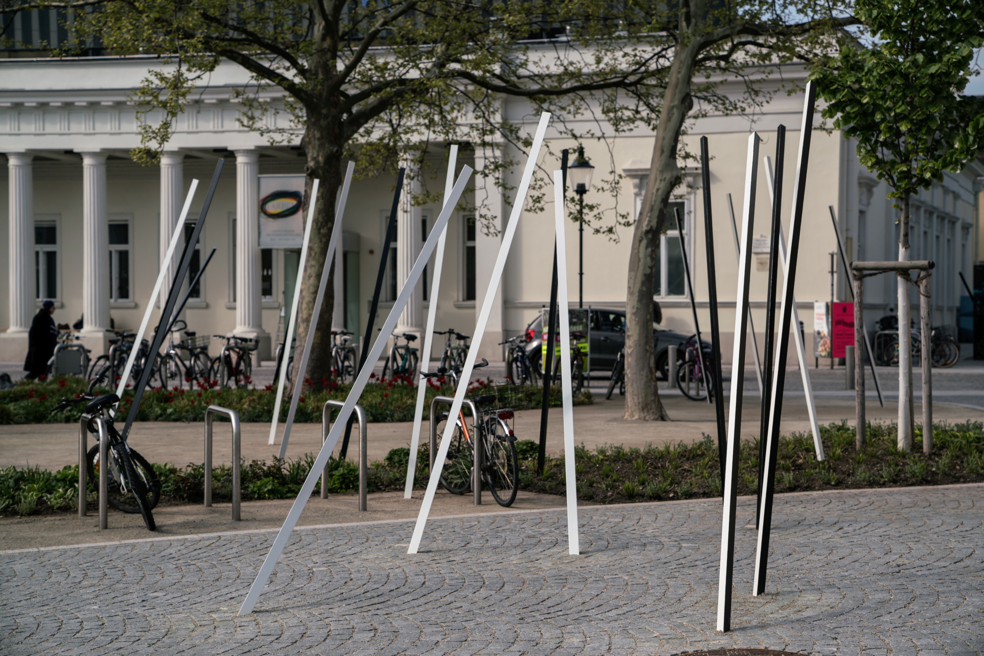 Widerstäbe / Counterpoles Memorial to the Victims of National Socialism in Baden 36 metal poles scattered across the square stick out of the ground at different angles. At first glance, these 'Counterpoles / Widerstäbe' seem to be arranged at random. In fact they follow a deliberate pattern: They all point towards an imaginary Star of David hanging over the square, a symbol of remembrance of all Jewish victims of National Socialism. The poles are arranged in groups of three so that where each pole enters the ground, it marks the corner of an imagined triangle. The triangles are a reference to the coloured triangular badges used in the concentration camps to identify the different groups of prisoners. These triangles envisaged on the ground therefore remember those people who fell victim to Nazi tyranny for political, religious or other reasons. Walking among the poles, the installation opens up constantly changing perspectives, forming a new and different image each time. As a whole the installation is conceived as an open field of thought which refuses fixed ideas or directions and instead encourages active dialogue.